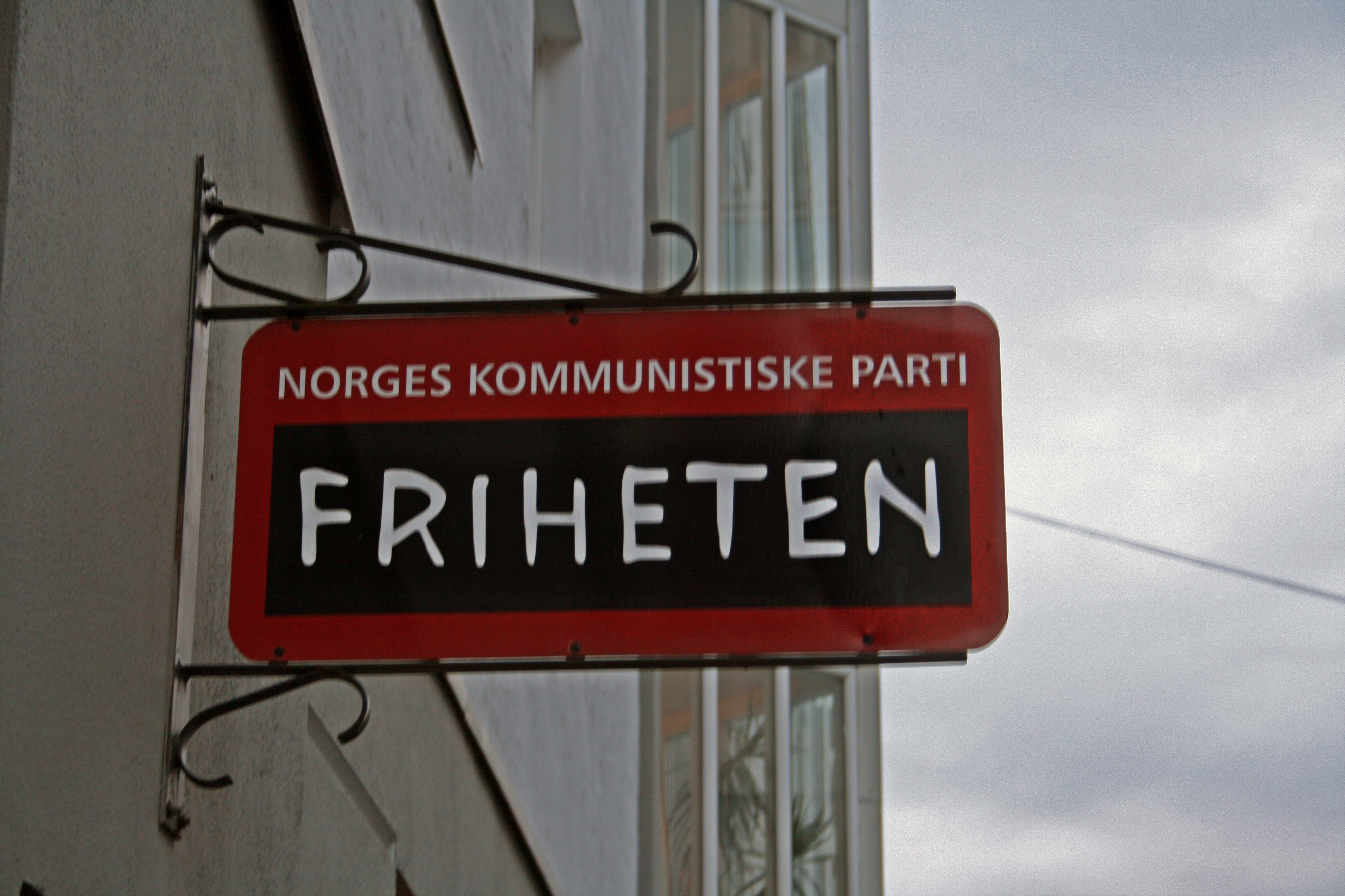 Sign outside the editorial offices of the paper Friheten ("Freedom") in Oslo, Norway